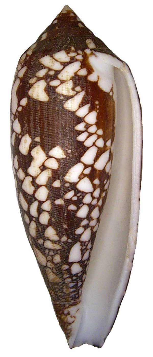 NOTE: the lip of this shell is badly damaged, and appears to have subsequently been filed down to make it look neater. Familie: Conidae Grösse: 10 cm Verbreitung: Indo-Pazifik Fundort: Kenia, Diani-Beach leg.det. U.Schmidt, 1990 Foto: U.Schmidt, 2007